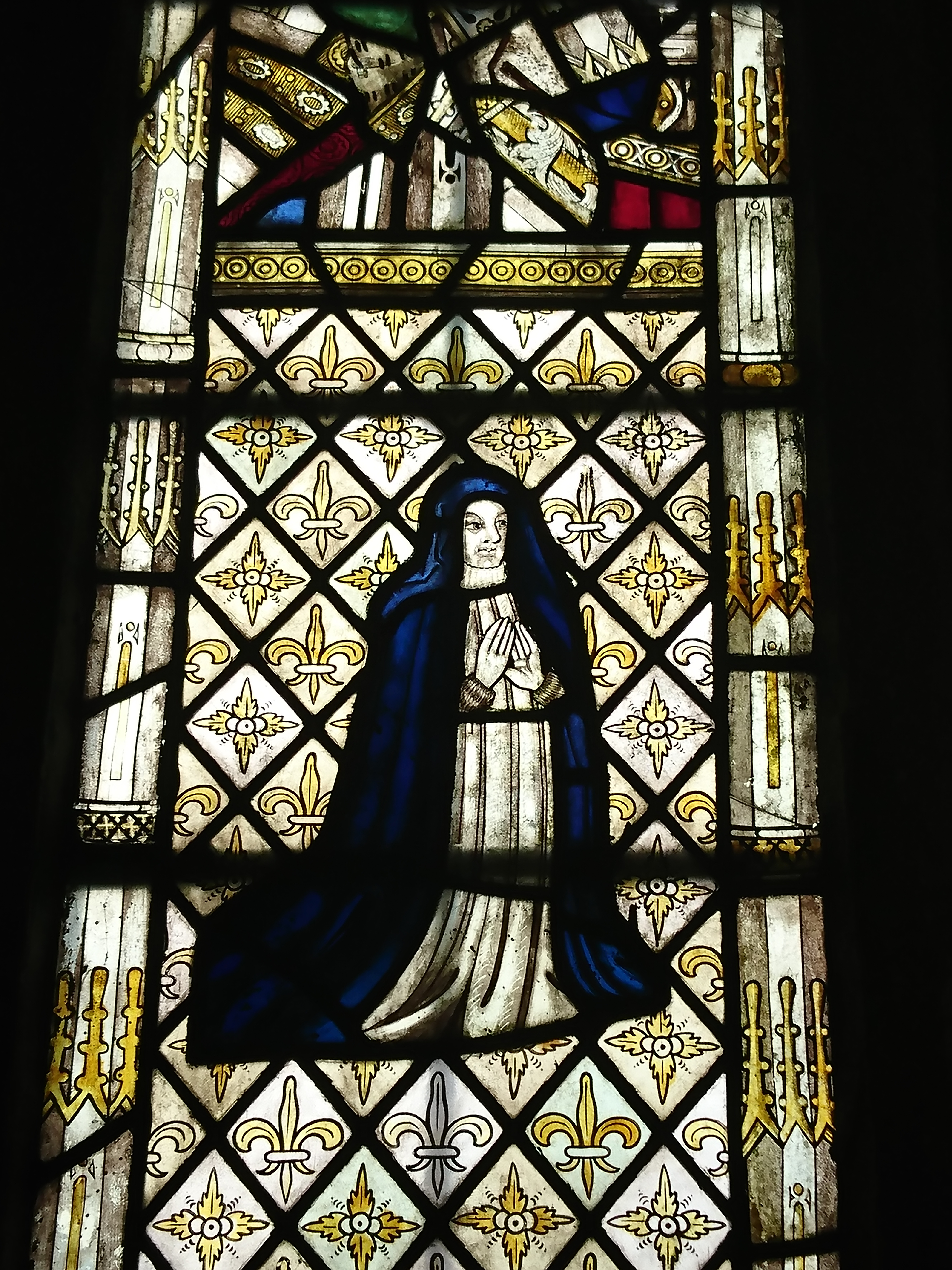 Fifteenth century stained glass window at Llanllugan church depicting a kneeling nun